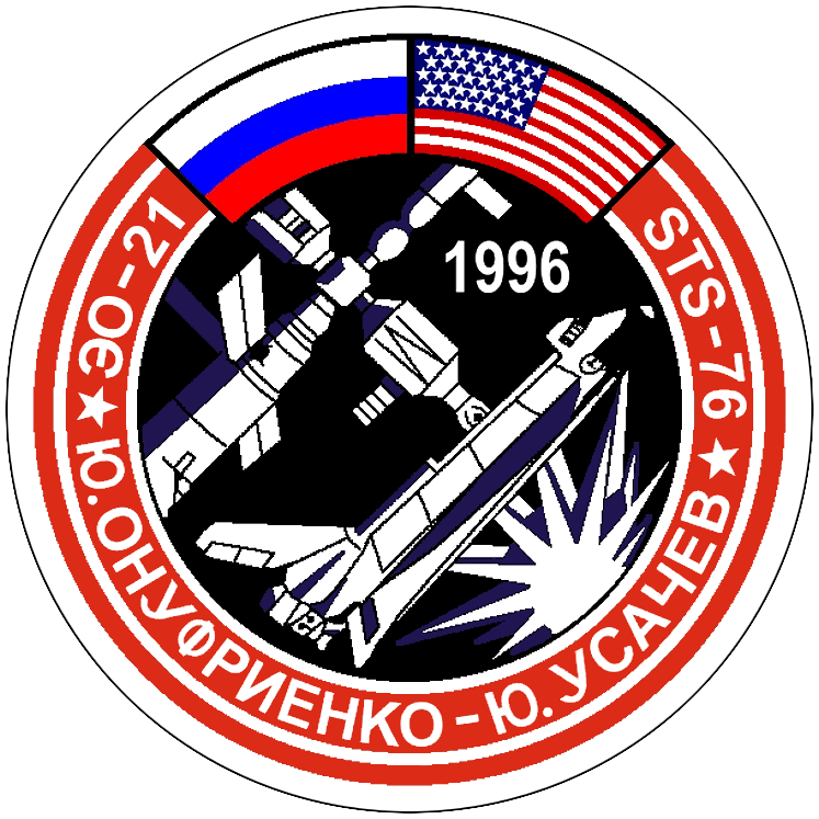 The official crew patch for the Russian Soyuz TM-23 mission, which delivered the EO-21 crew to the space station Mir.